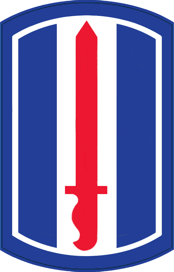 193rd Infantry Brigade shoulder sleeve insignia. Representation of United States Army insignia, not eligible for copyright